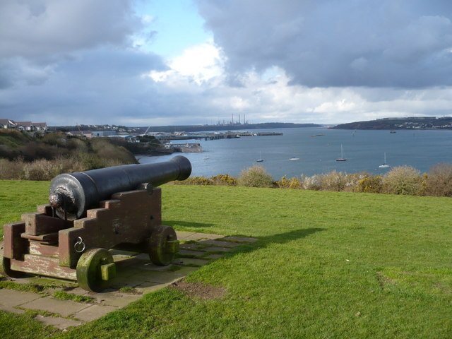 The Haven Taken from the picnic area at Cleddau Toll Bridge looking out to Pembroke Dock and the Texaco oil refinery on the left.